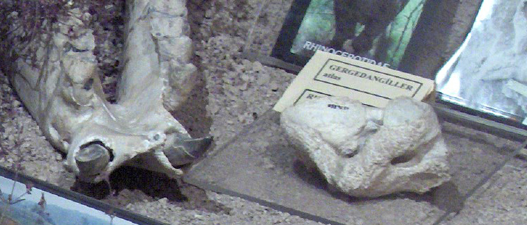 Mandible and atlas of Rhinocerotidae; Museum of Anatolian Civilizations; Ankara, Turkey